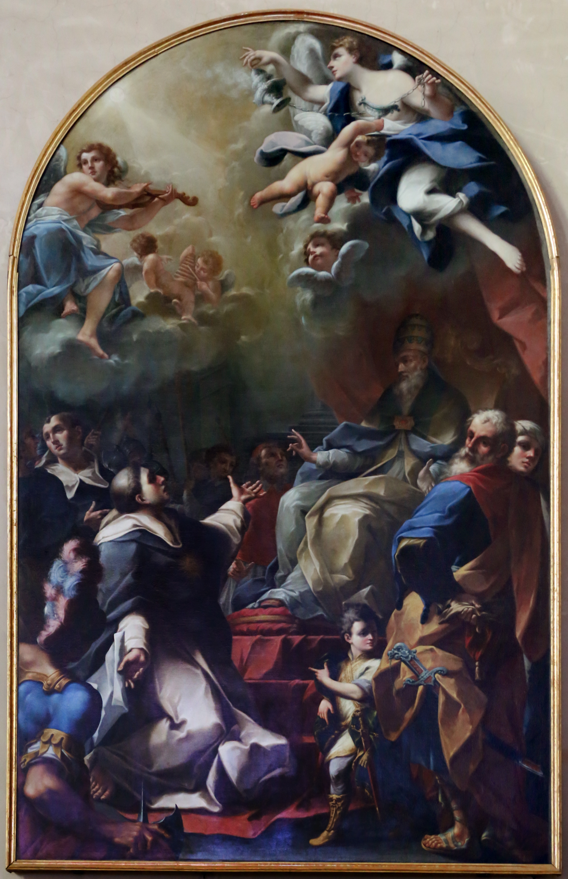 Interior of the Basilica of San Domenico (Siena)